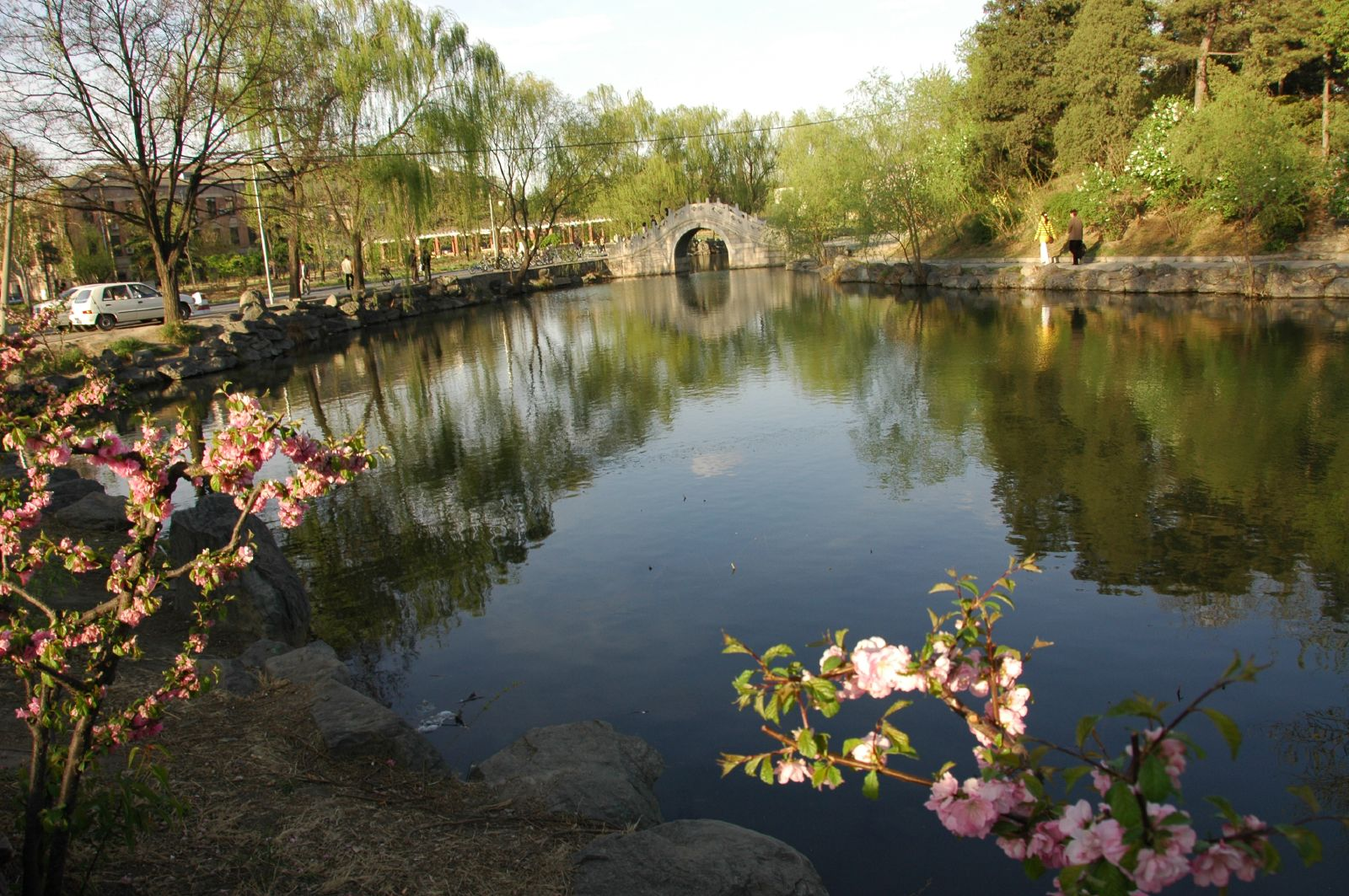 The Tsinghua University campus in Beijing, China